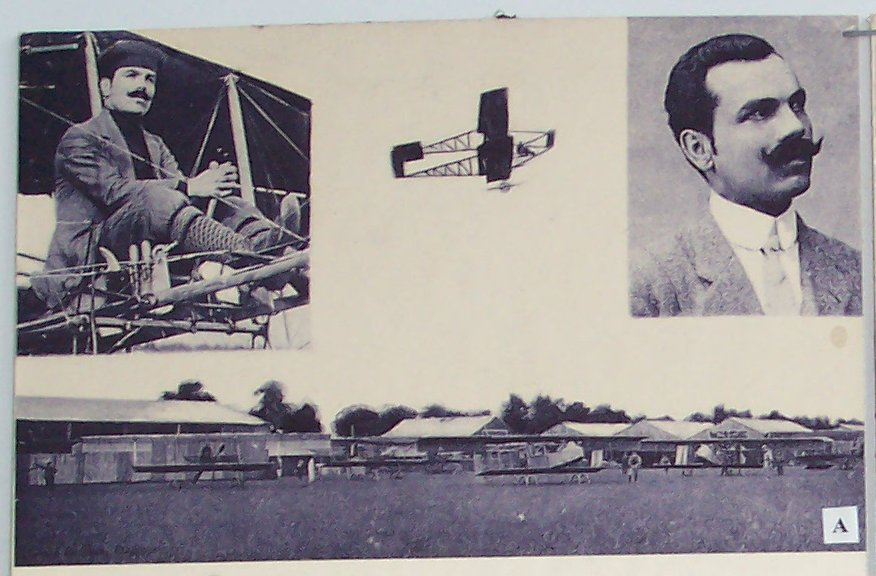 Image shows the first Serbian pilot Mihajlo Petrović during flight training in France 1912.